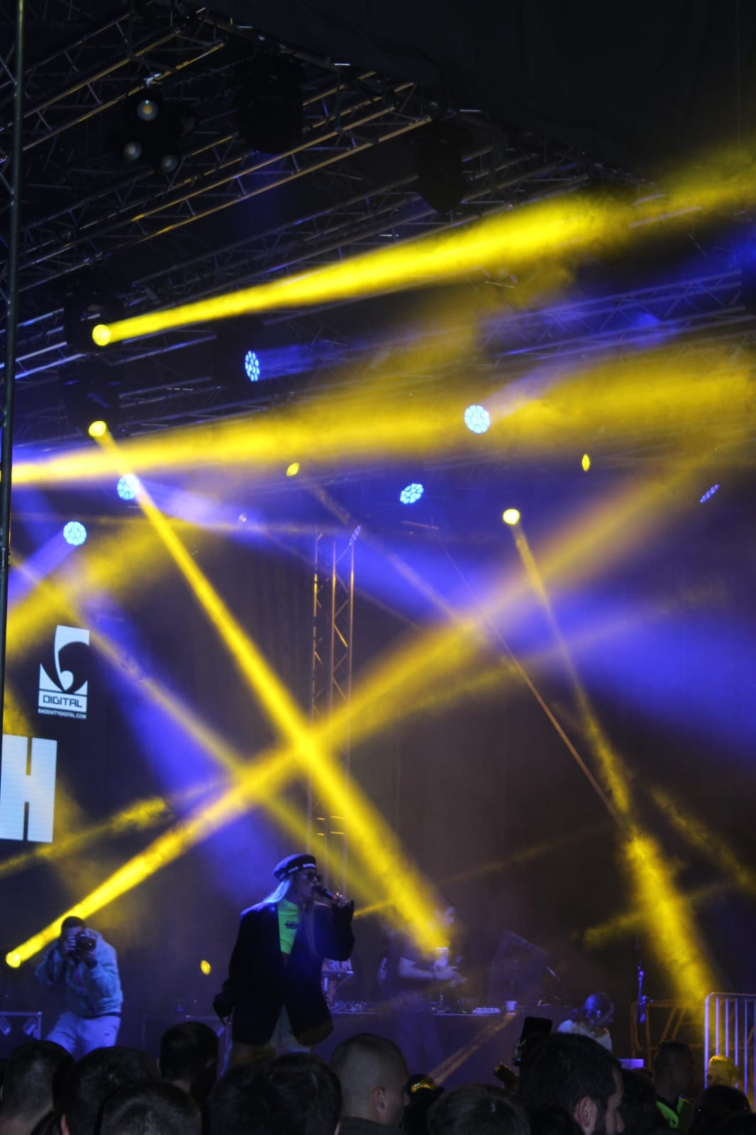 Sneakerville festival